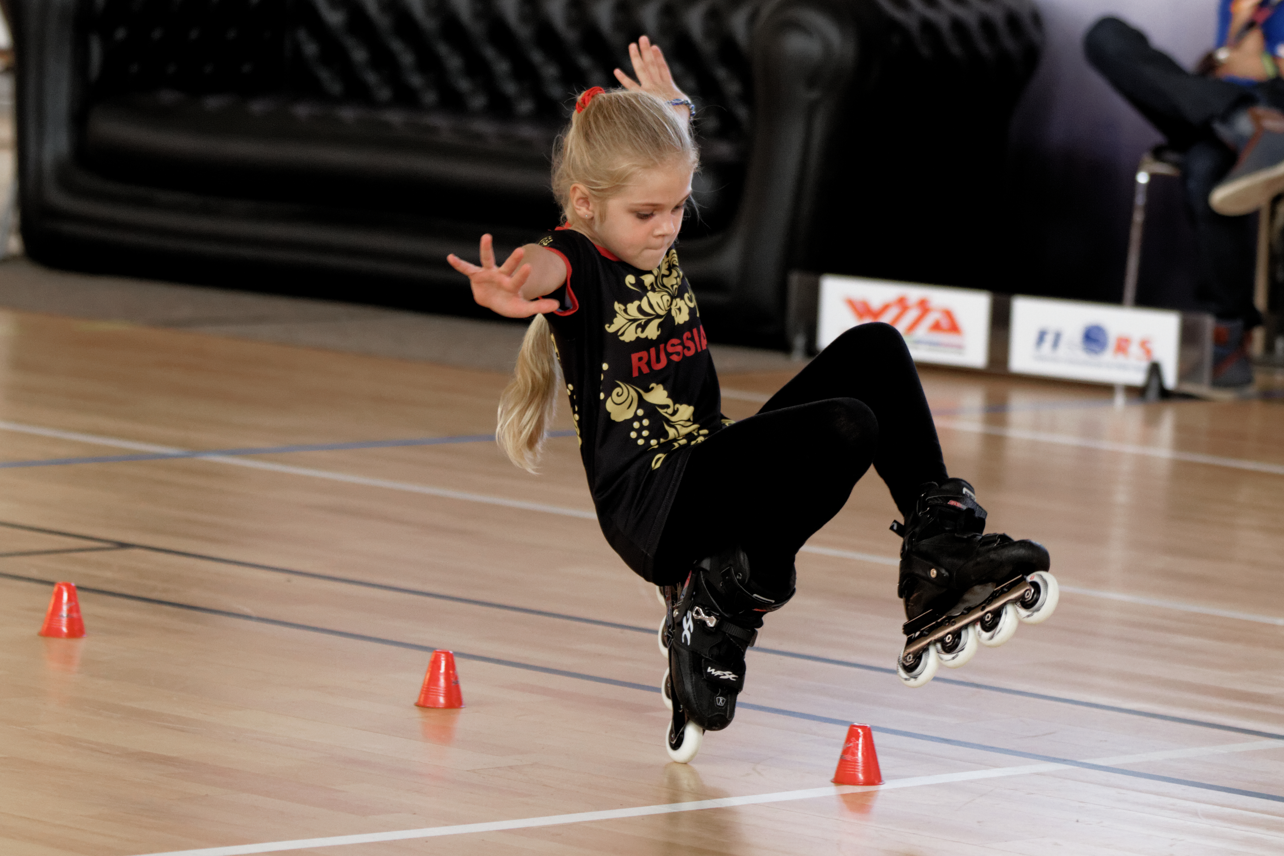 2014 World freestyle skating championships